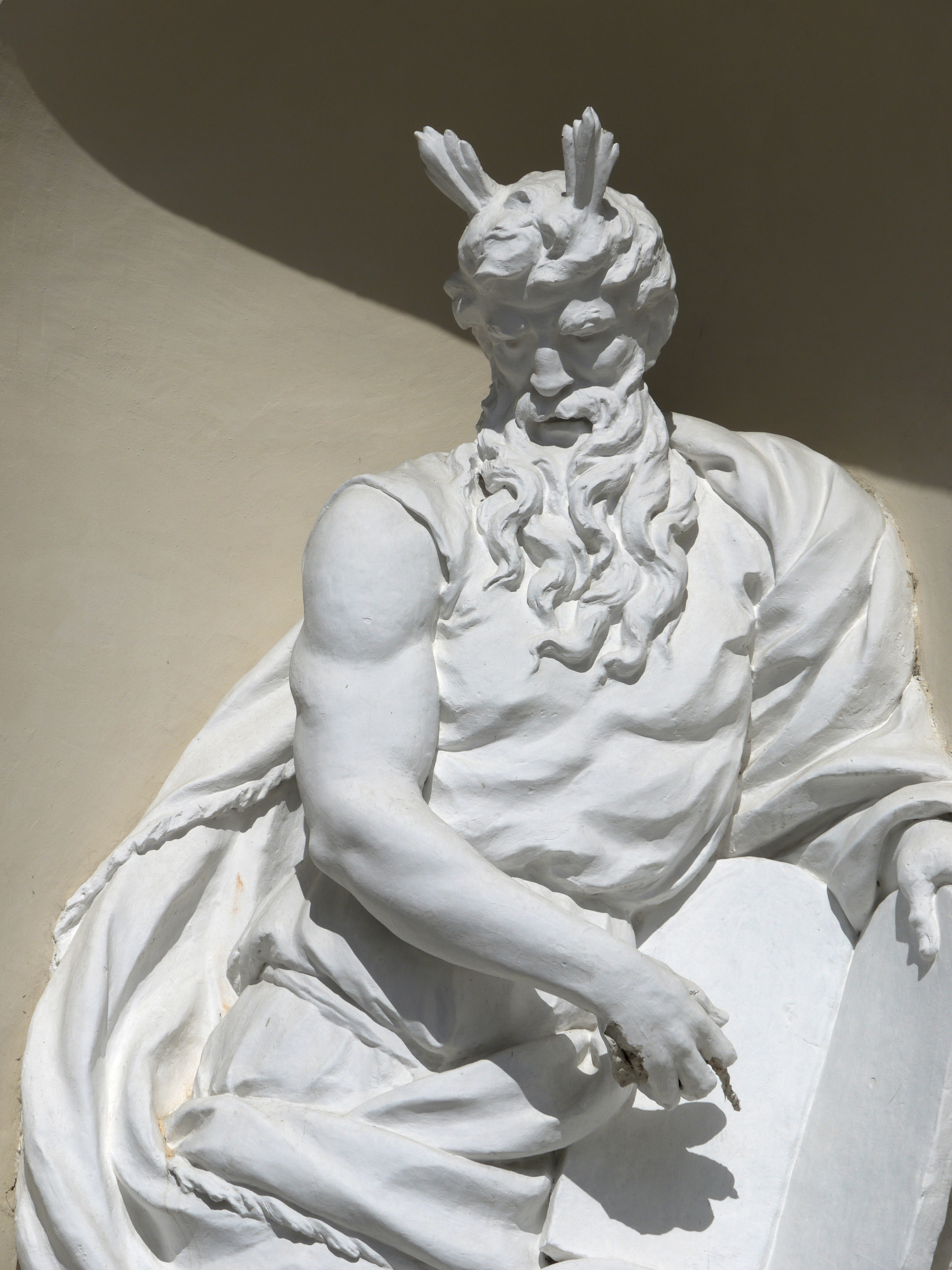 Vilnius Cathedral Moses